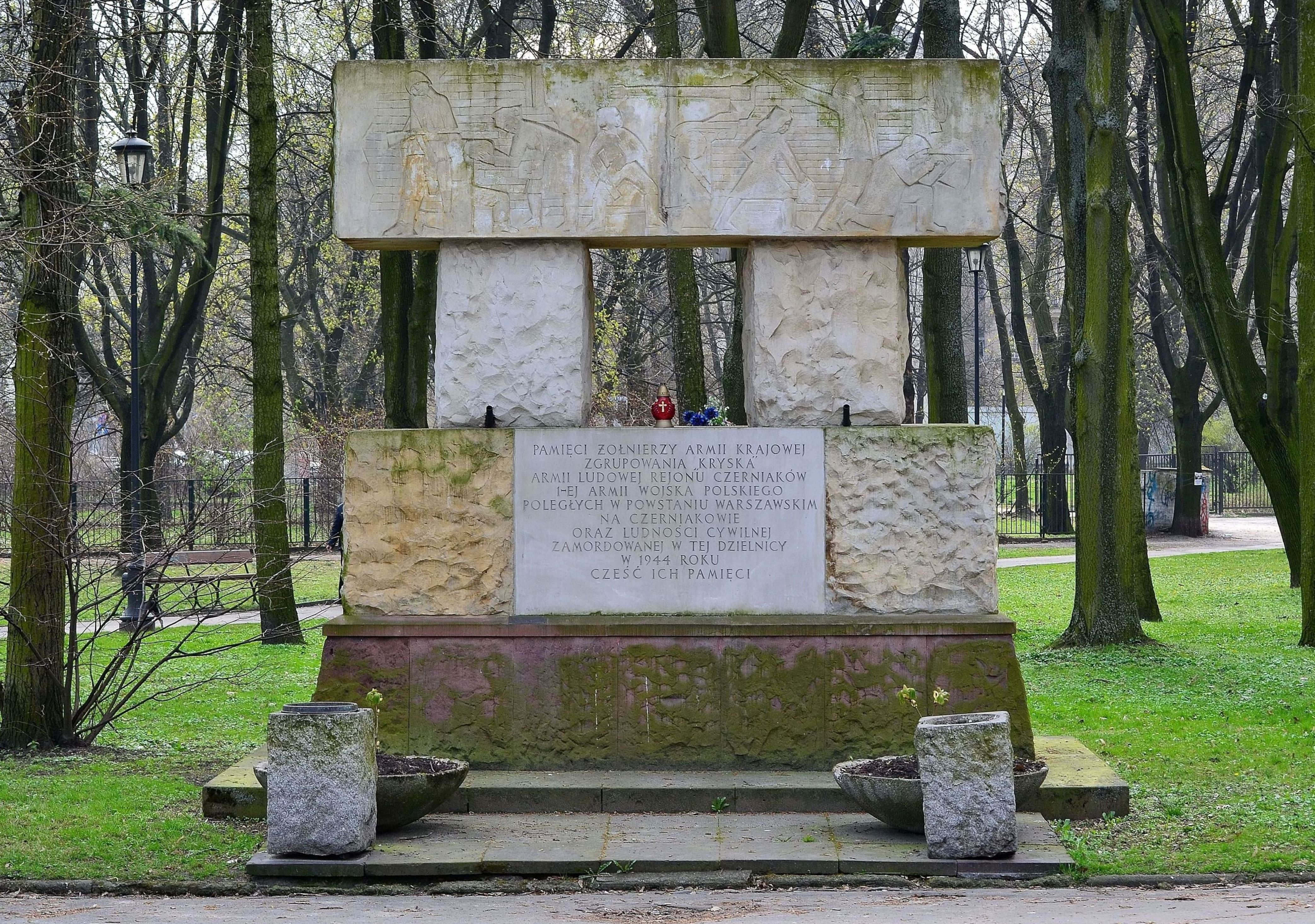 Monument to Czerniaków Insurgents and Soldiers of the 1st First Polish Army in Warsaw